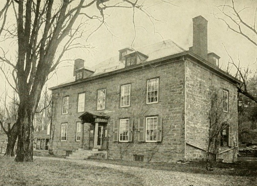 Old Fort Johnson, near Amsterdam, N. Y., in 1915